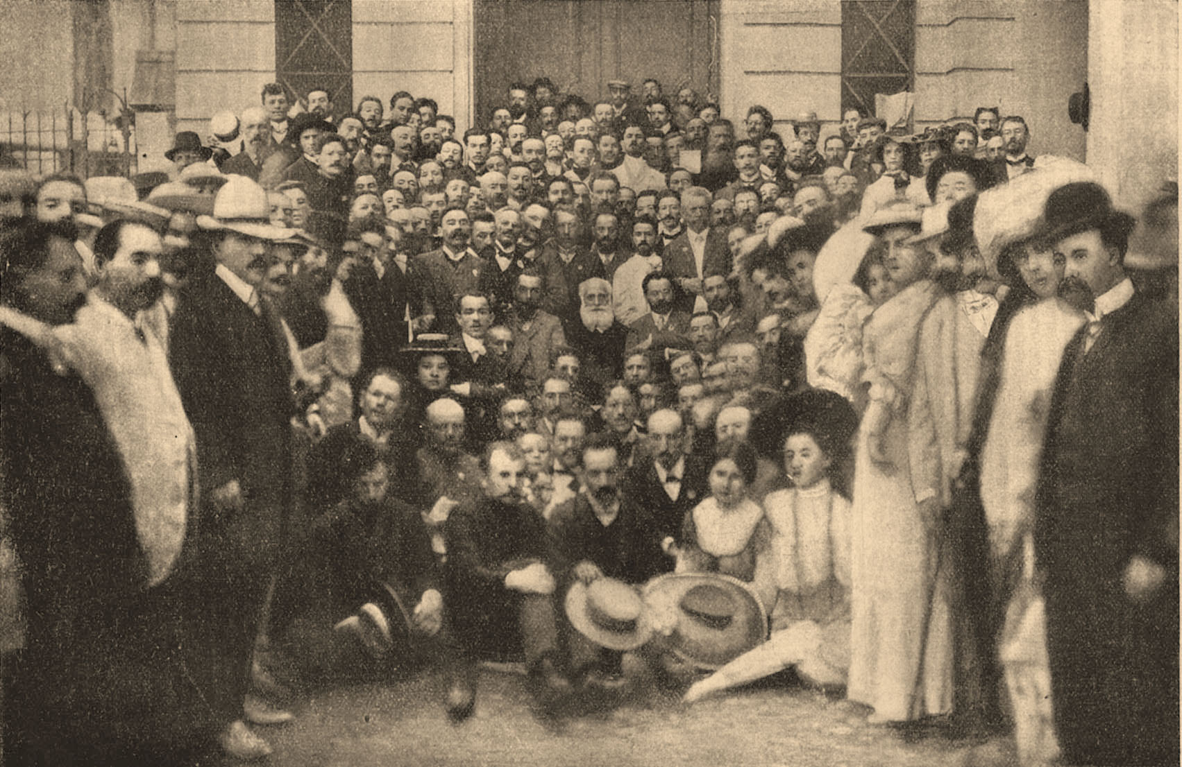 Illustration from Brockhaus and Efron Jewish Encyclopedia (1906—1913). Group of delegates from Russia at the Seventh Zionist Congress at (center - Max Nordau).